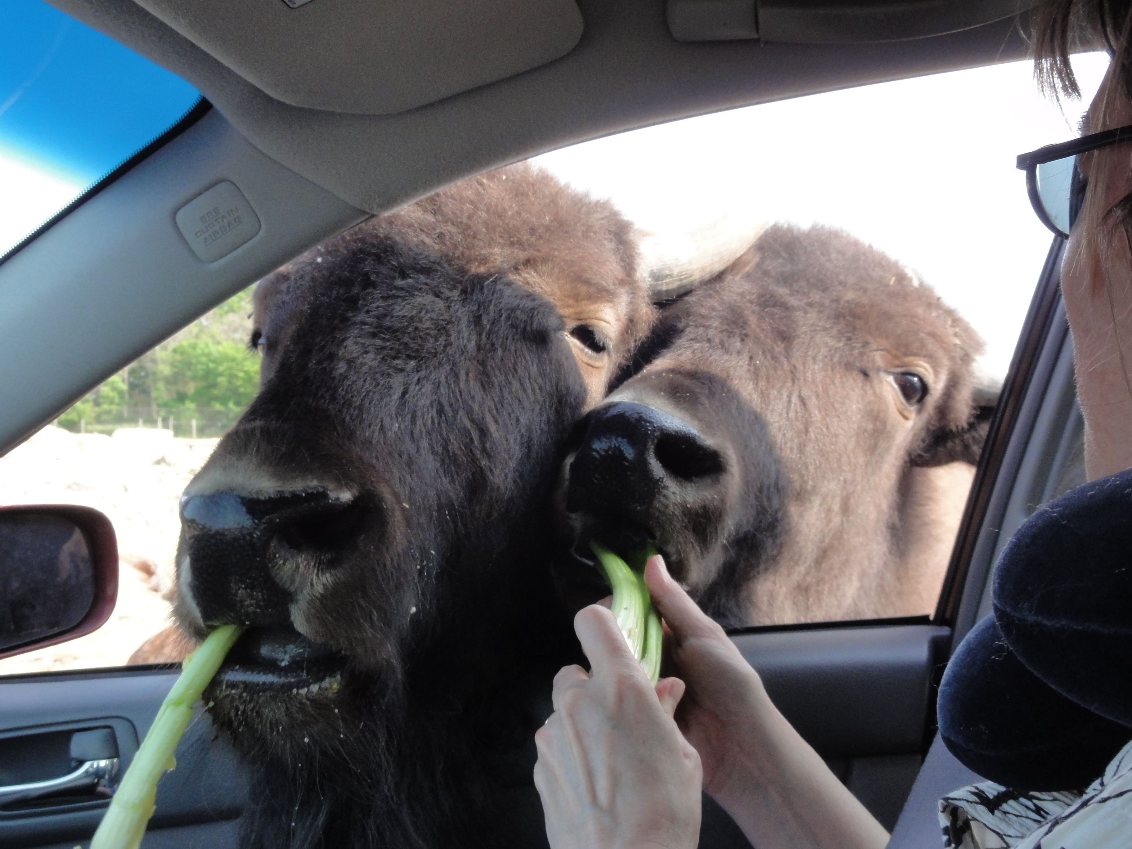 African Safari Wildlife Park Port Clinton, Oh 2012